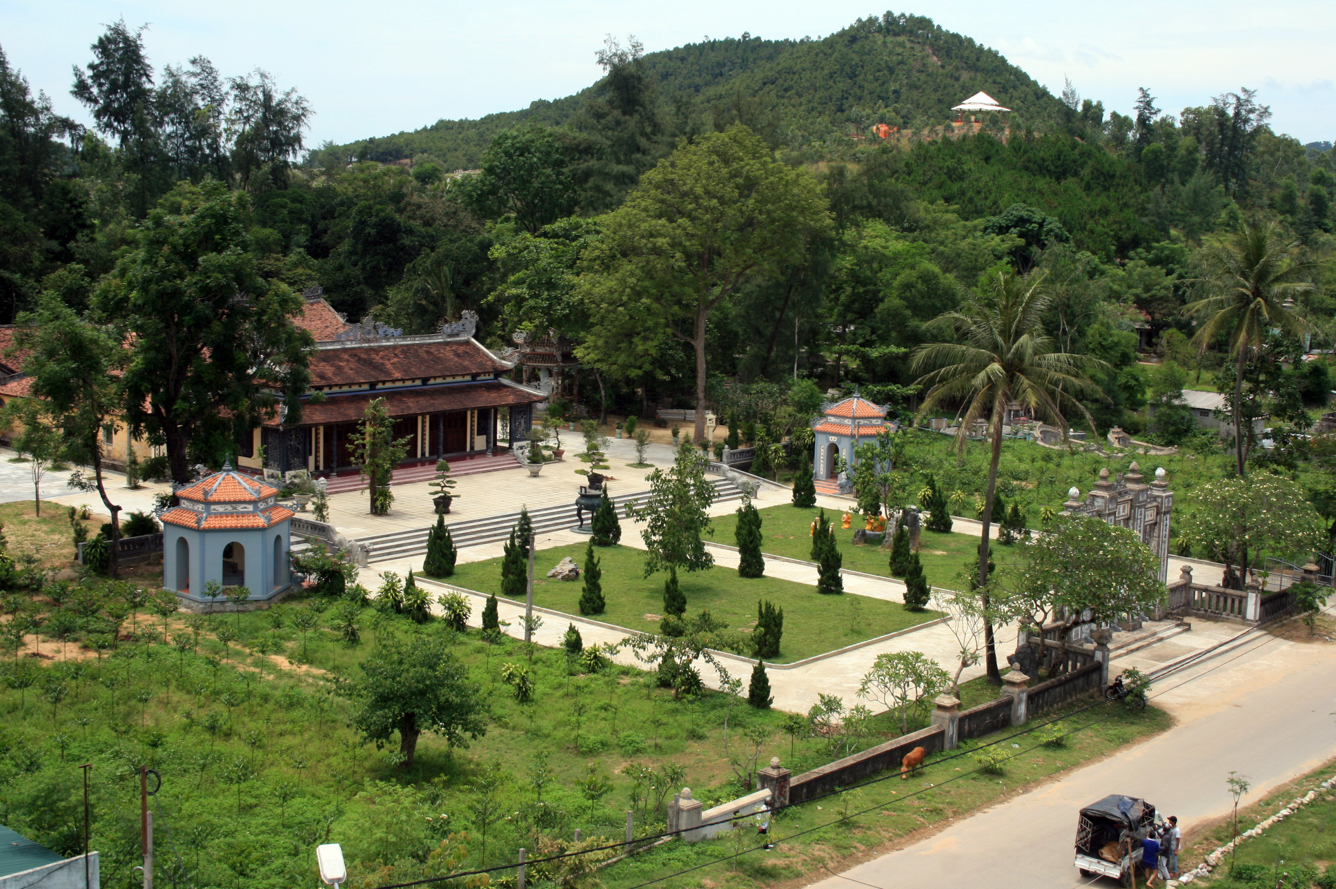 Quoc An pagoda, Hue, Vietnam